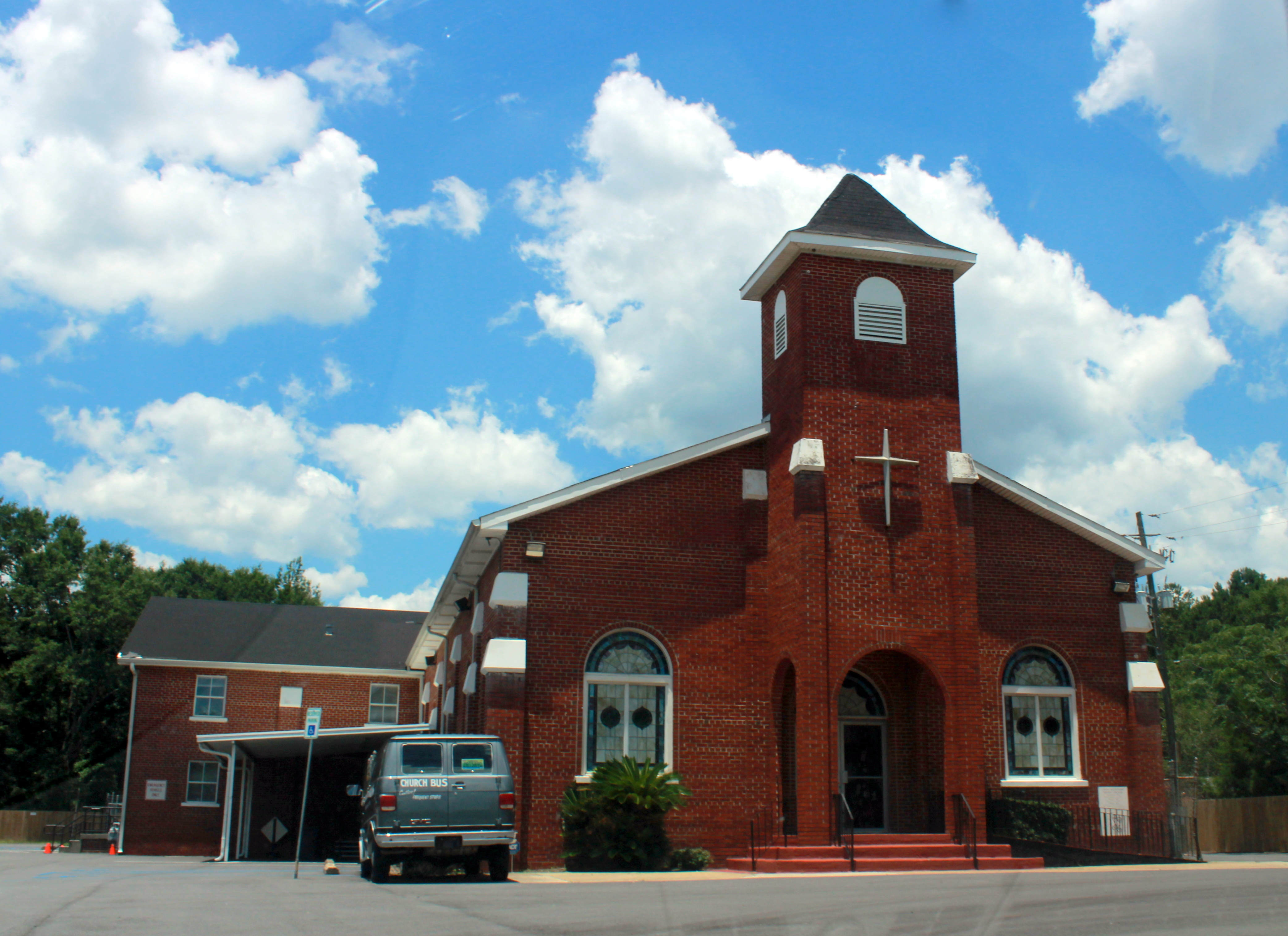 Historic Union Missionary Baptist Church, c. 1869 (originally Old Landmark Baptist church & evolved from Stone Street Baptist Church) in Africatown, Mobile, Alabama. This church was co-founded by Cudjoe Lewis, the penultimate survivor of America's last slaveship, The Clotilde. This site is on the African-American Heritage Trail of Mobile.